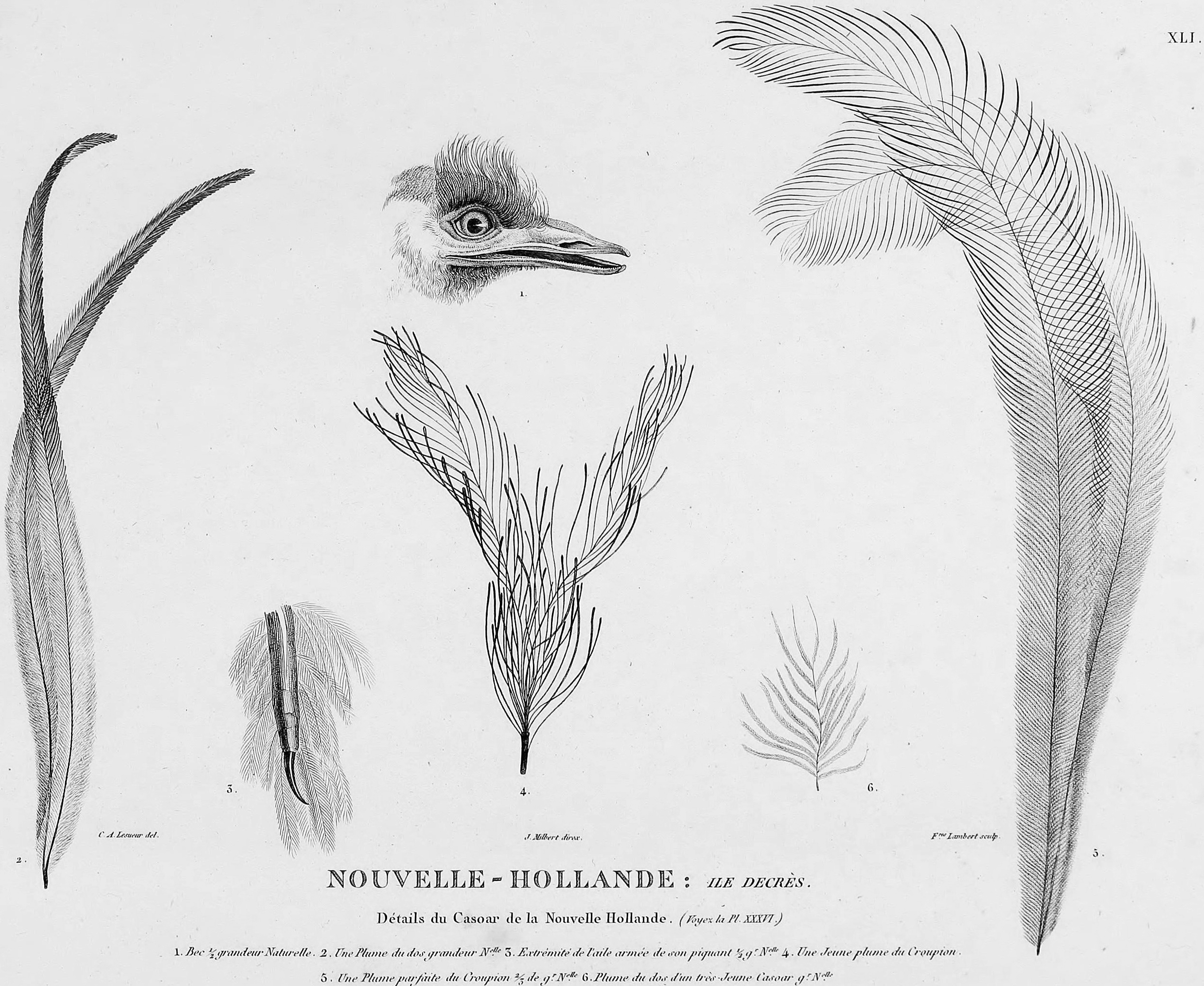 Illustrations of an Emu from Kangaroo Island.